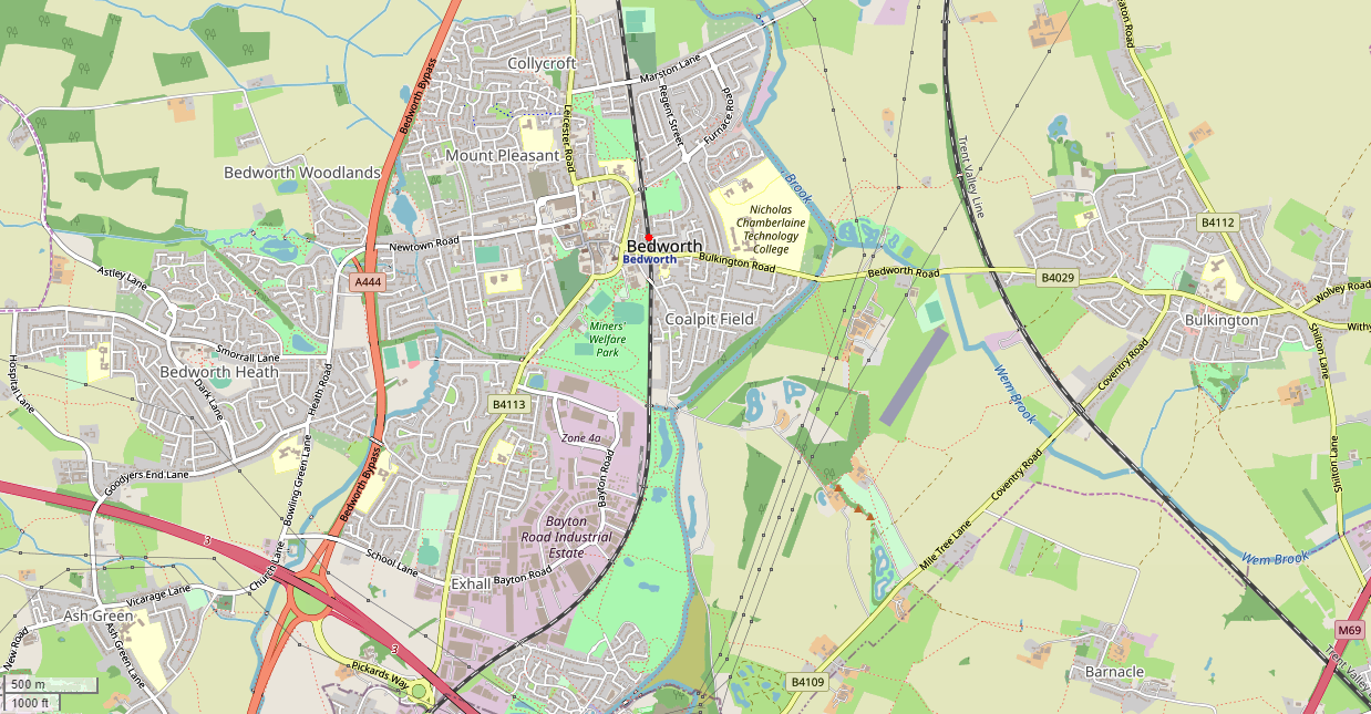 Map of Bedworth and Bulkington, Warwickshire. This map may be incomplete, and may contain errors. Don't rely solely on it for navigation.